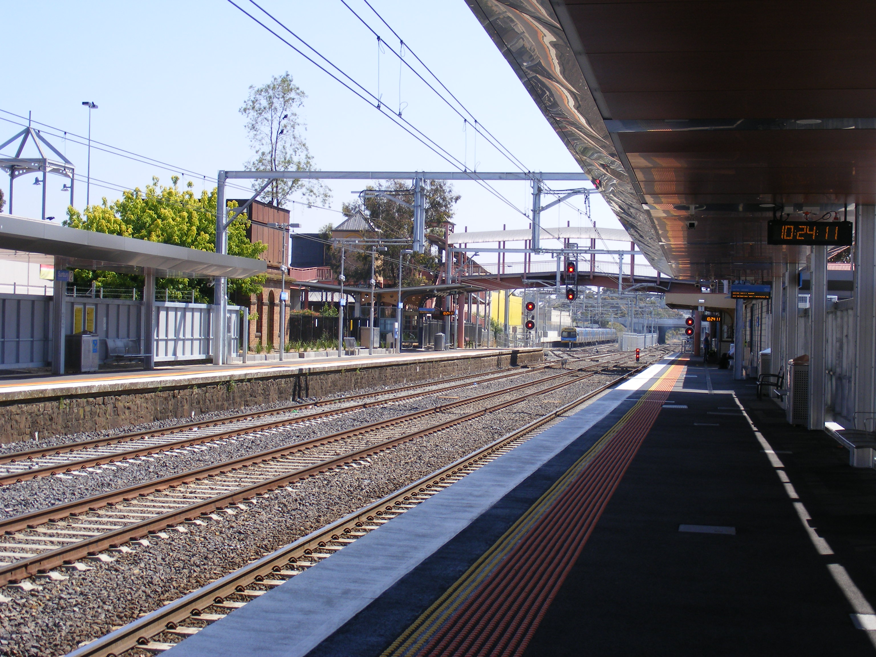 November 2012 looking towards Bendigo.